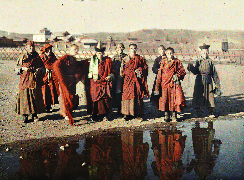 Lamas and another man near the yellow palace, Urga, Mongolia. Autochrome.